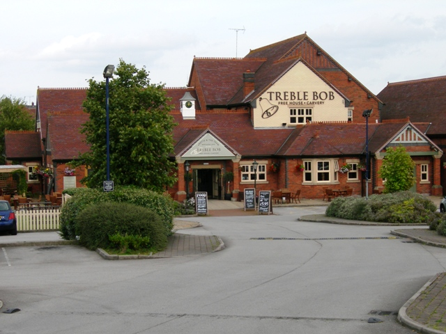 Treble Bob Modern chain pub on the edge of the new industrial estate to the south east of Barlborough.